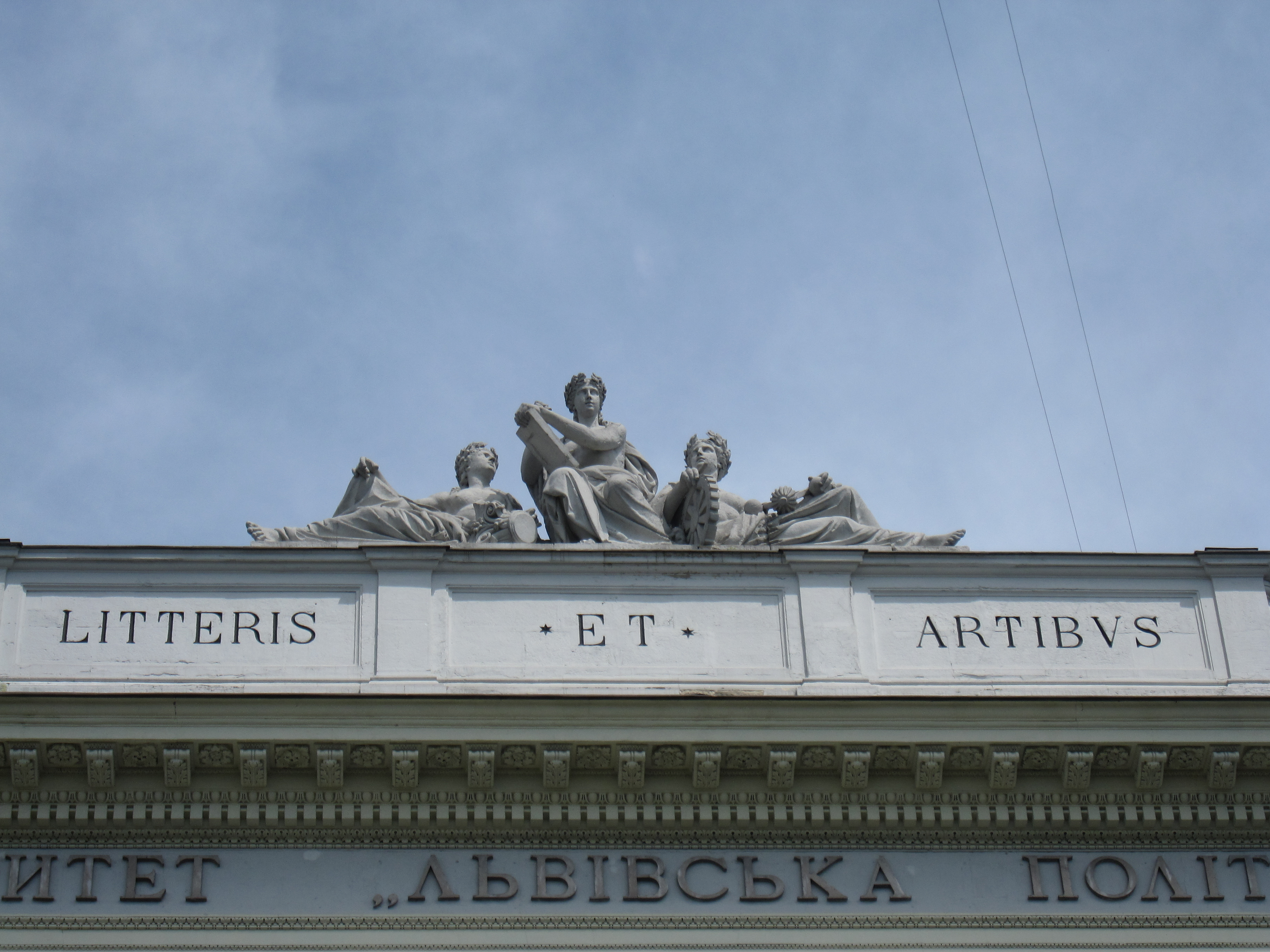 Exterior of Lviv Polytechnic.